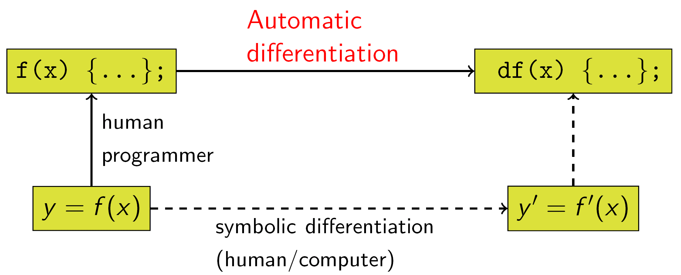 I made this myself using TikZ, Beamer and LaTeX It displays how automatic differentiation relates to symbolic differentiation, the two upper boxes represent a source code in any programming language, while the lower to boxes represent the abstract idea of a mathematical function.